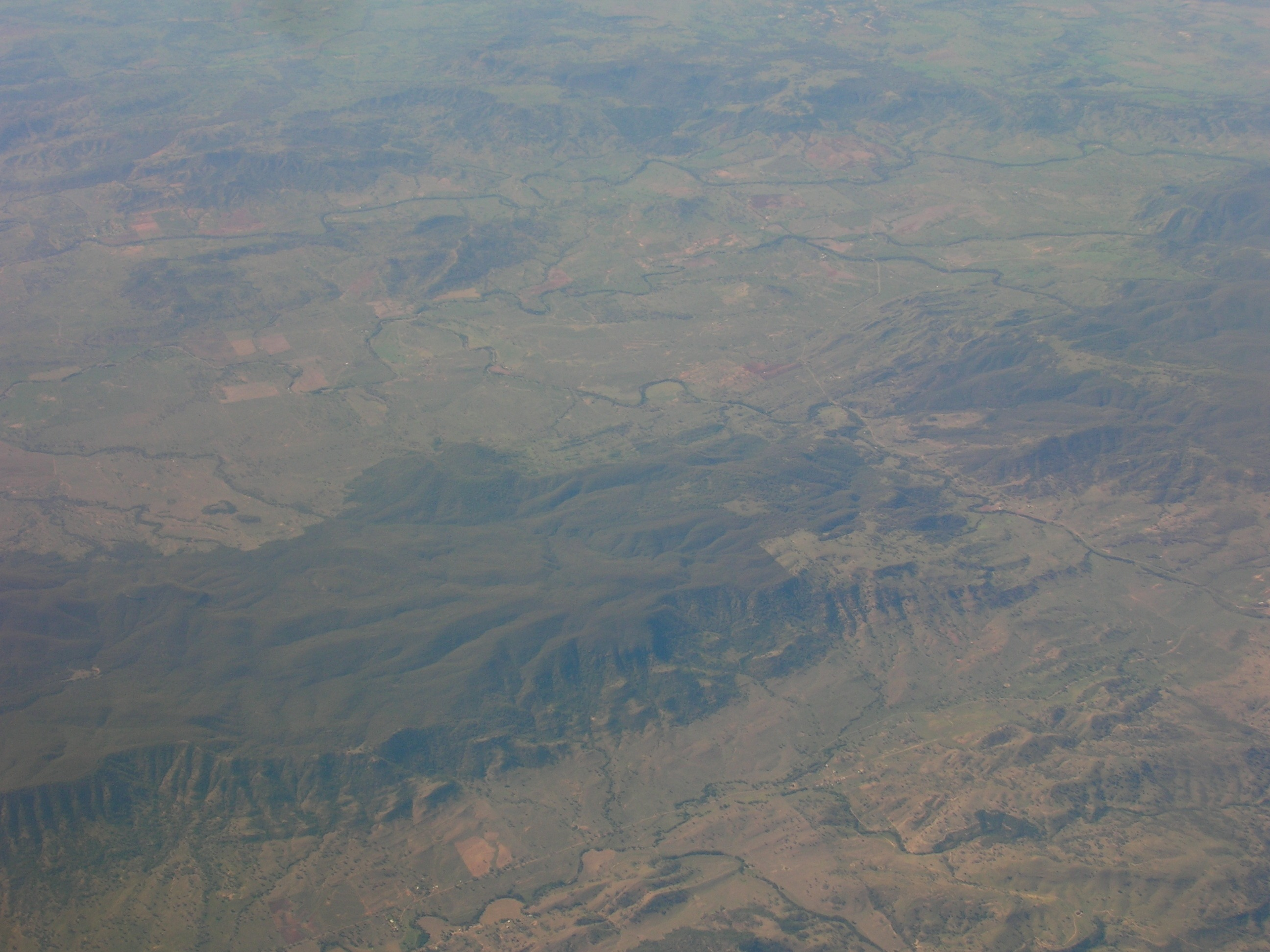 Airborne - Brisbane to Adelaide Back Creek, New South Wales See this post on not so green for maps and satellite images showing the exact locations of this and other shots from this series. i033007 137